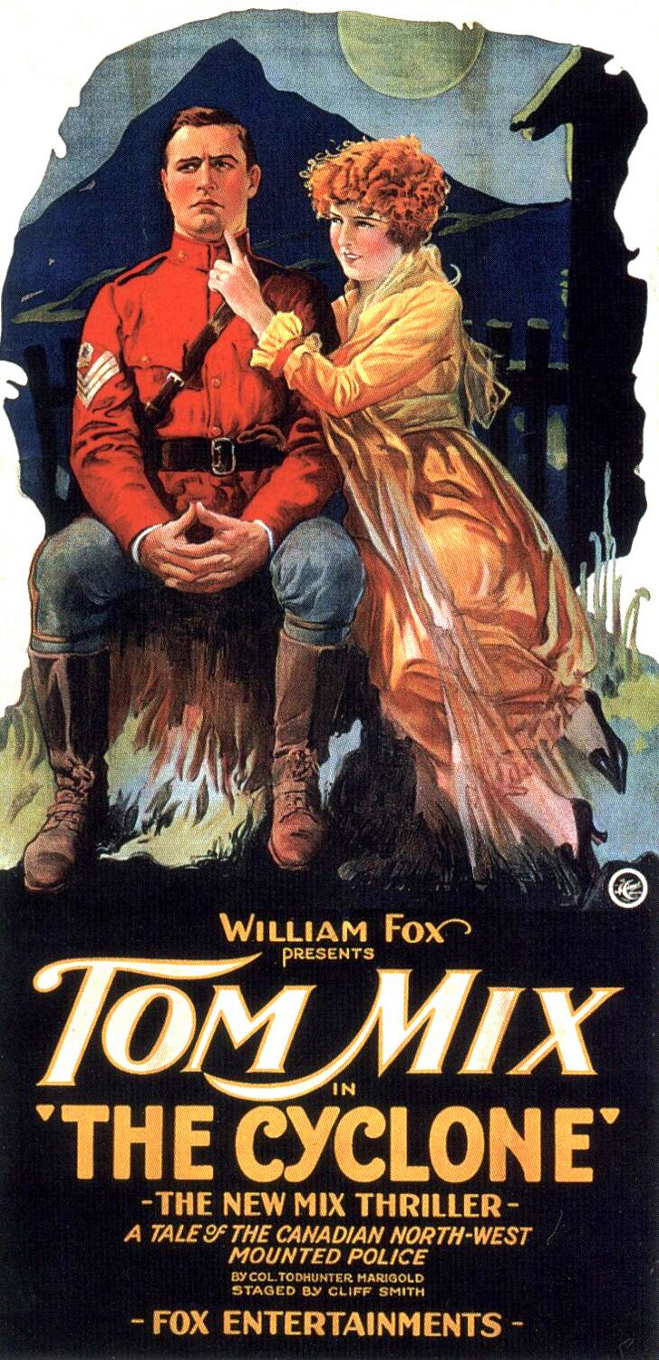 This is a poster for the American drama film The Cyclone (1920).